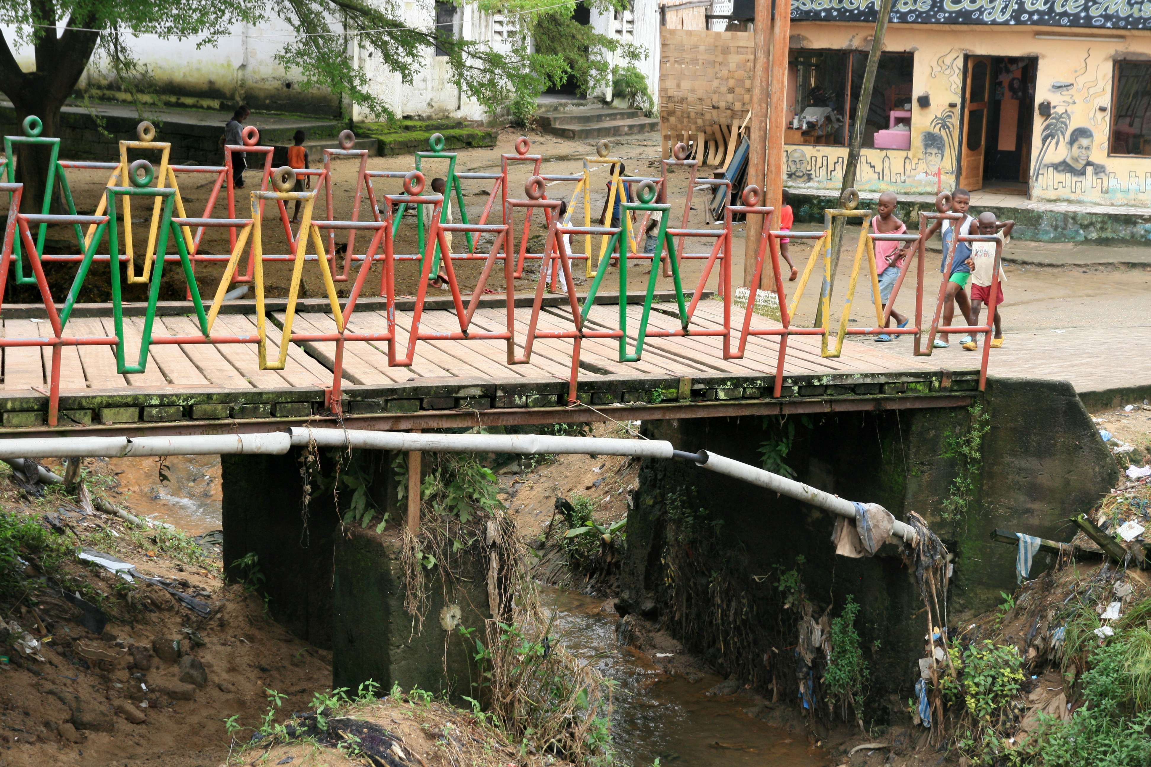 Bessengue Douala. La passerelle (the small bridge) by Alioum Moussa. Photo by Sandrine Dole, July 2012.